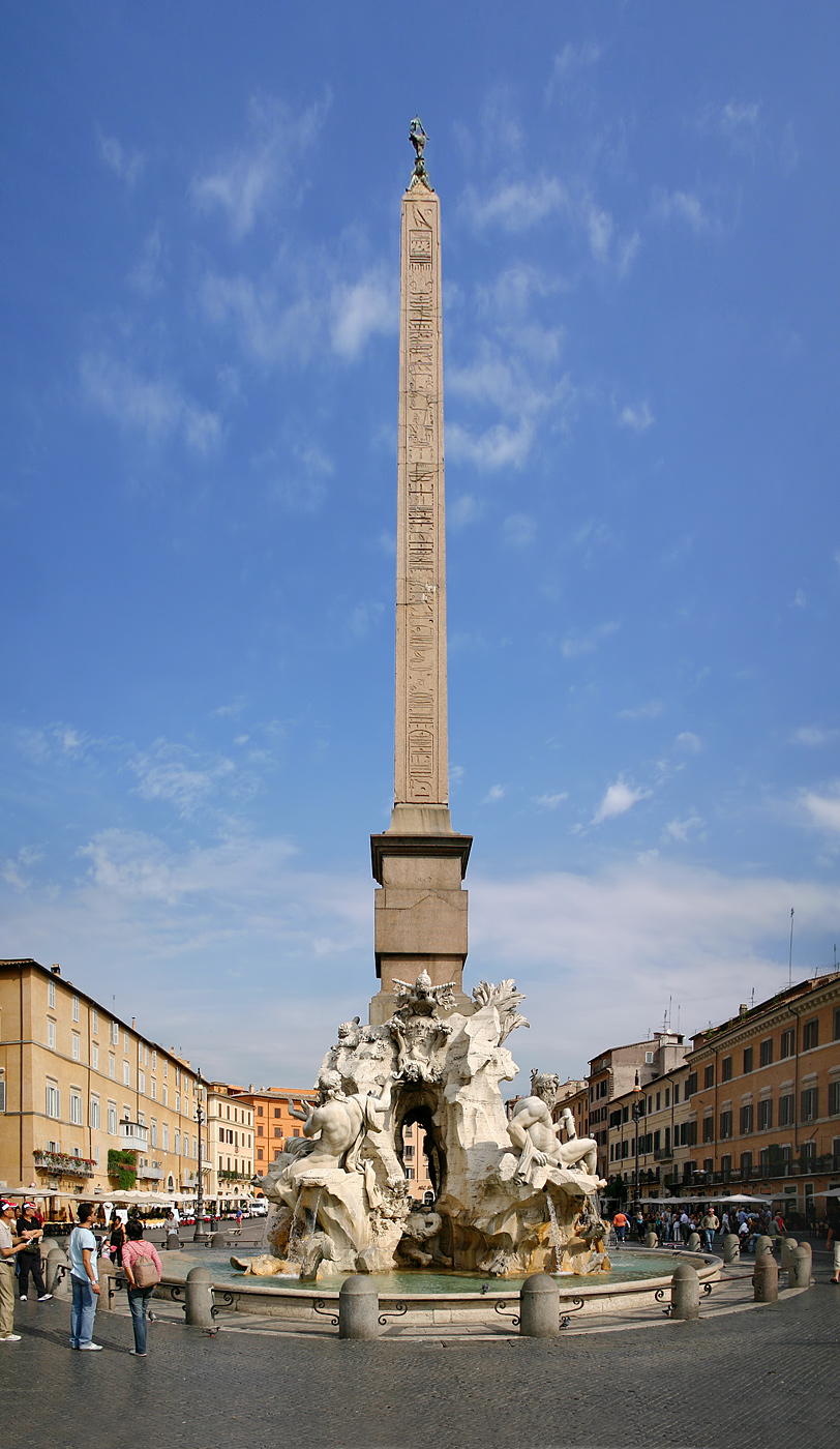 The "Fontana dei Quattro Fiumi" (Fountain of the four rivers) by Gianlorenzo Bernini in piazza Navona in Rome, Italy, topped by the "obelisk of Domitian". Picture by Stefan Bauer 03-09-2005.